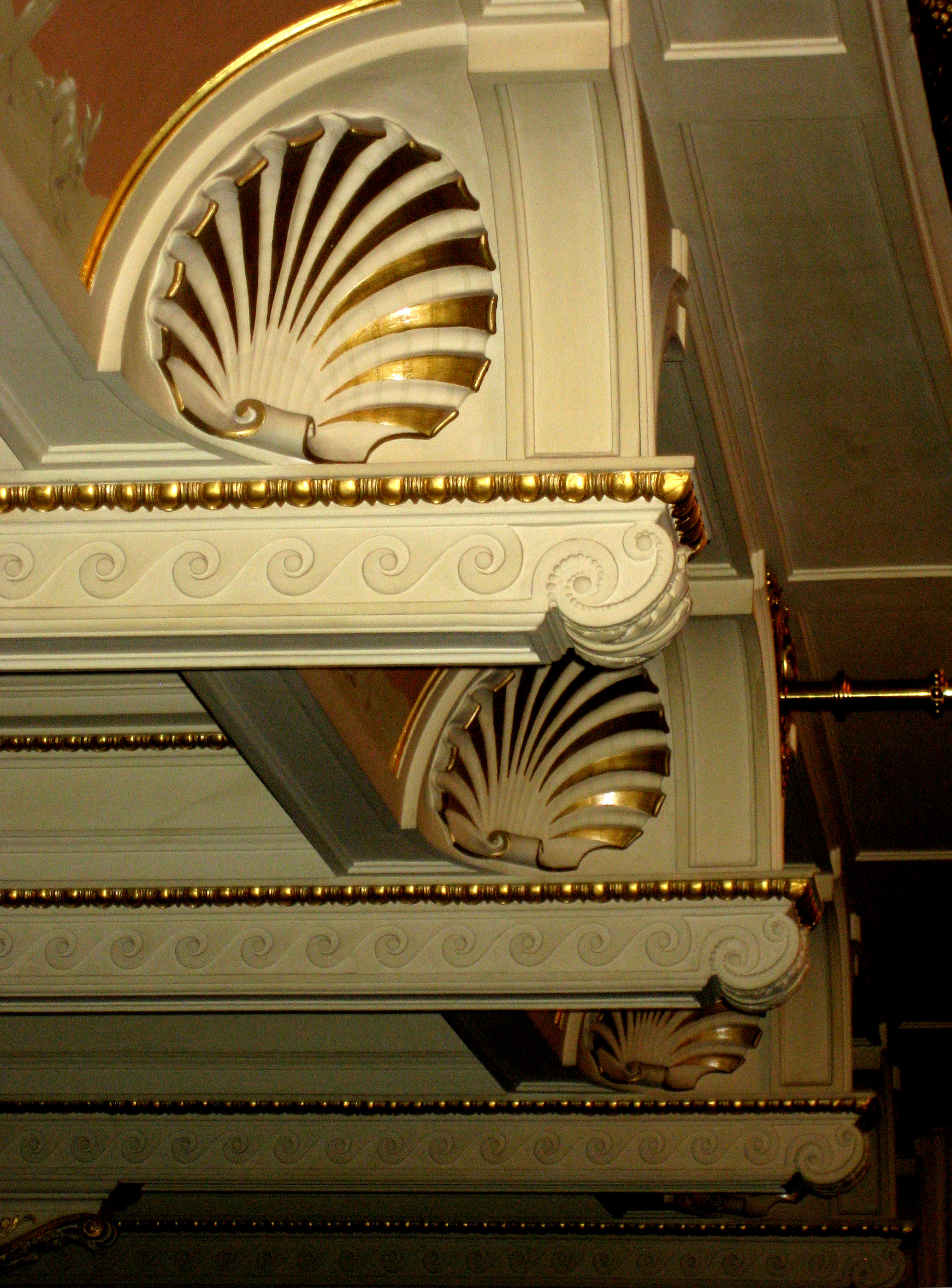 Shell ornaments in Dresden Semperoper.